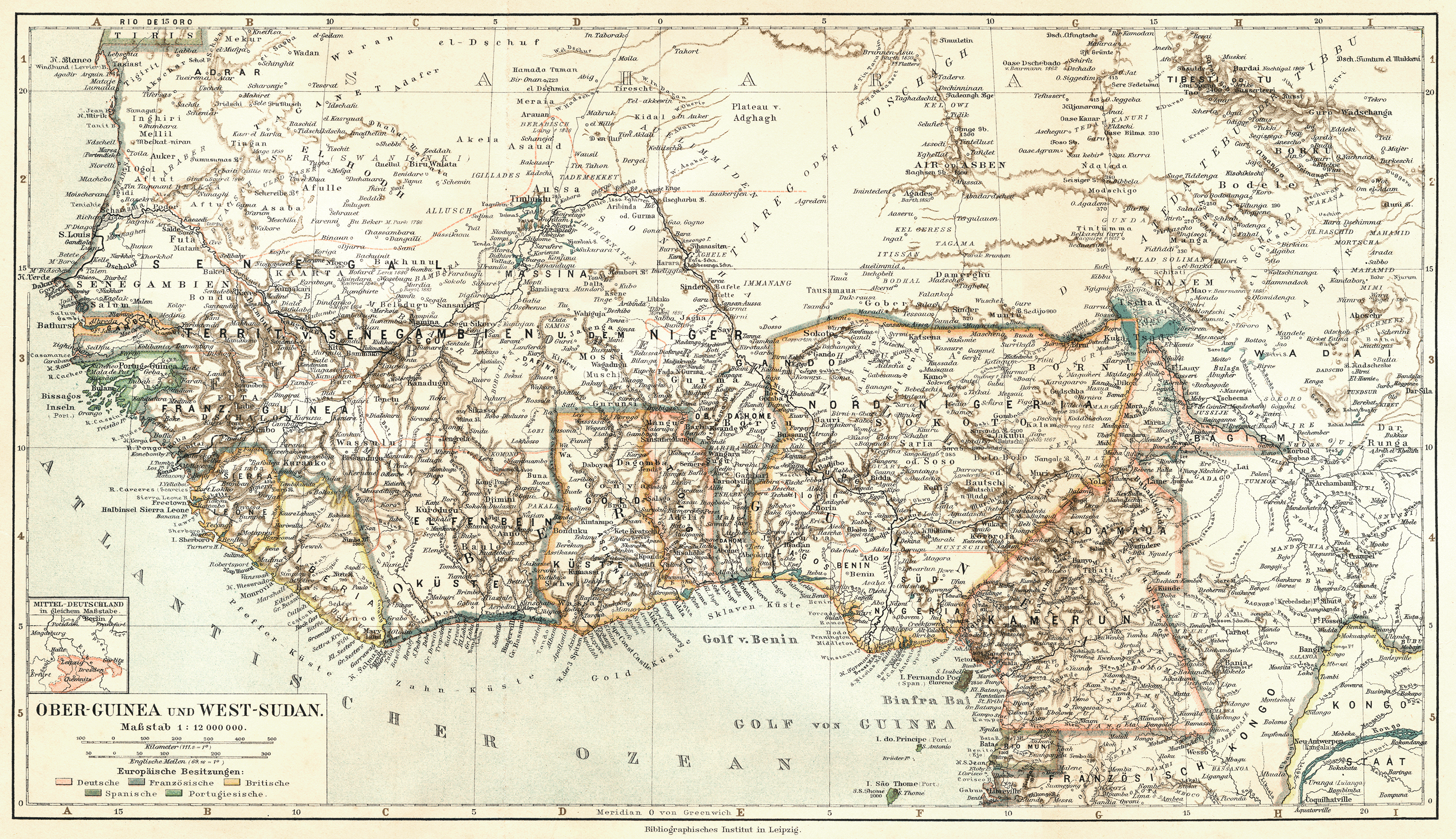 Upper Guinea and Western Sudan (1905)